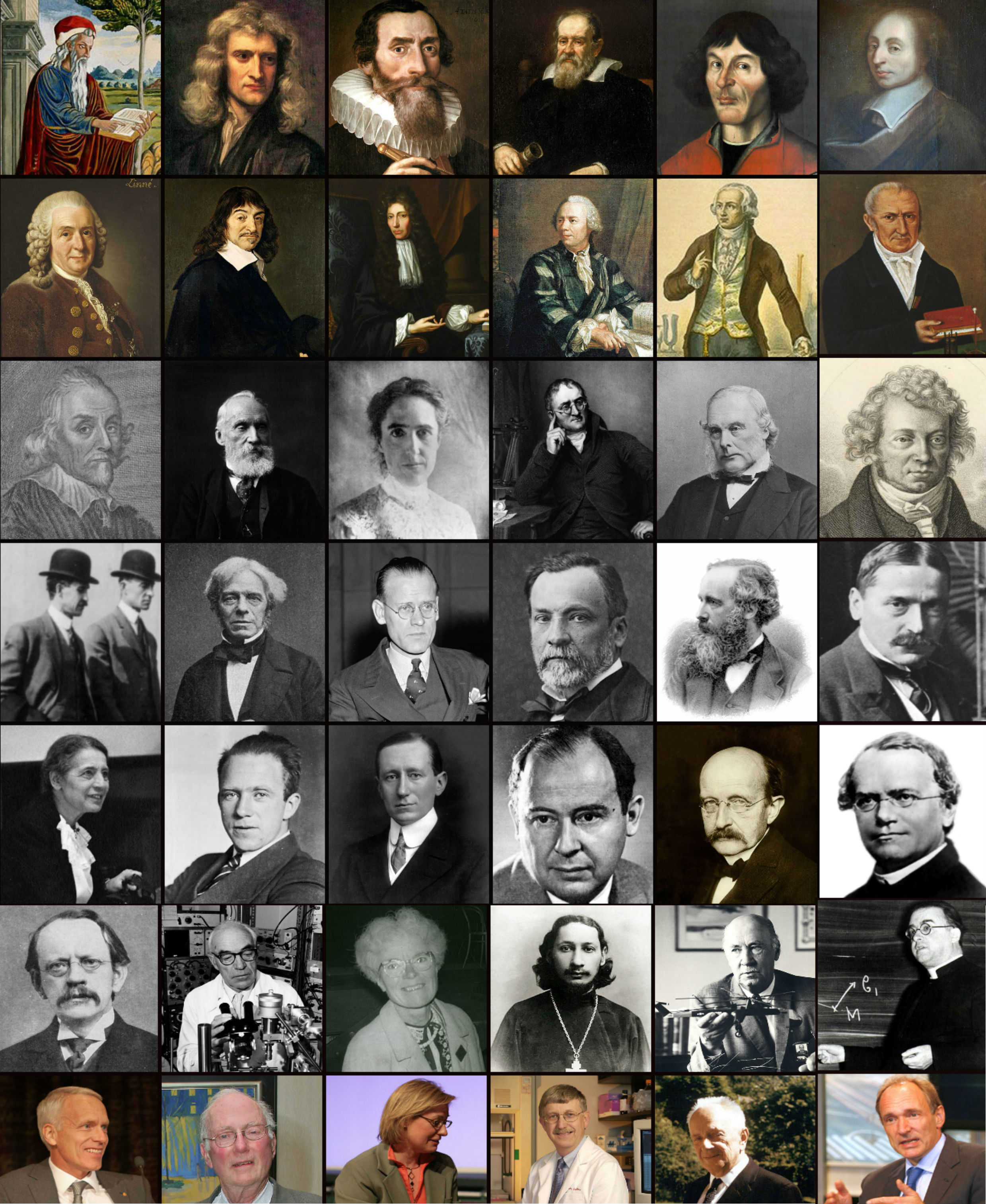 Famous Christian Scientists and Inventors. According to 100 Years of Nobel Prizes a review of Nobel prizes award between 1901 and 2000 reveals that (65.4%) of Nobel Prizes Laureates, have identified Christianity in its various forms as their religious preference. Overall, Christians have won a total of 78.3% of all the Nobel Prizes in Peace, 72.5% in Chemistry, 65.3% in Physics, 62% in Medicine, 54% in Economics and 49.5% of all Literature awards. According to study that done by University of Nebraska–Lincoln in 1998 found that 60% of Nobel prize laureates in physics from 1901 to 1990 had a Christian background According of Scientific Elite: Nobel Laureates in the United State by Harriet Zuckerman, a review of American Nobel prizes winners awarded between 1901 and 1972, 72% of American Nobel Prize Laureates, have identified from Protestant background. Overall, Protestant have won a total of 84.2% of all the American Nobel Prizes in Chemistry, 60% in Medicinee, 58.6% in Physics, between 1901 and 1972. Anyone can use these original photos themselves among others and make another collage of (Christians) themselves or remix as they wish, as long as they give the correct source and usage/Copyright given. Dont delete the photos, if one becomes unusable due to copyright, please dont delete, just replace the photo or i will.